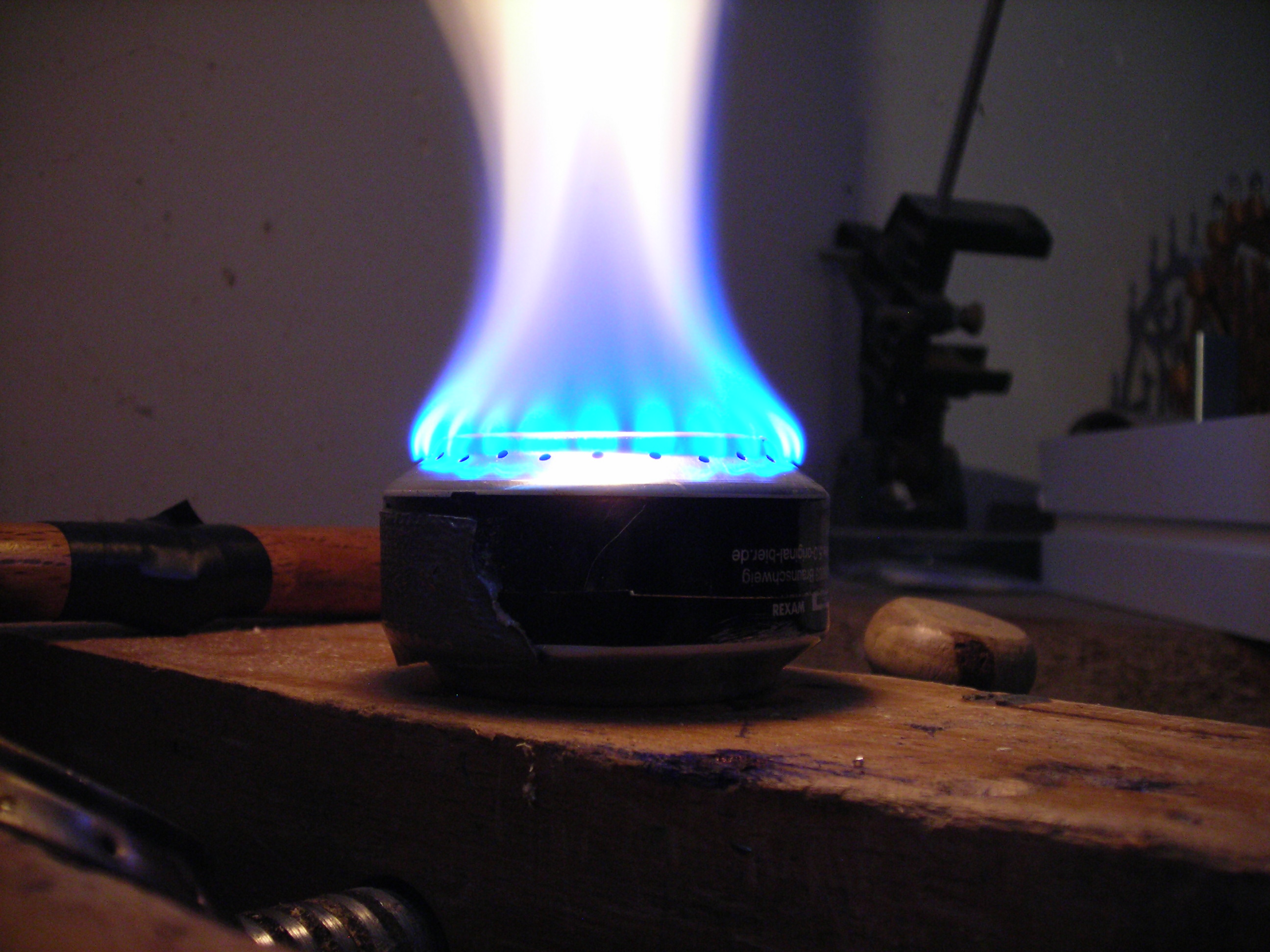 Selfmade alcohol-stove from two beer-cans